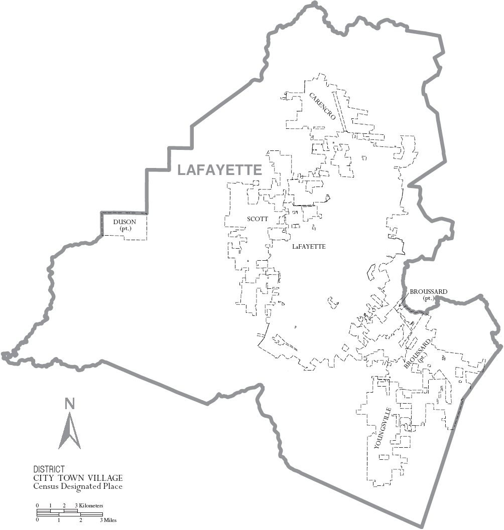 Map of Lafayette Parish, Louisiana, United States with municipal boundaries